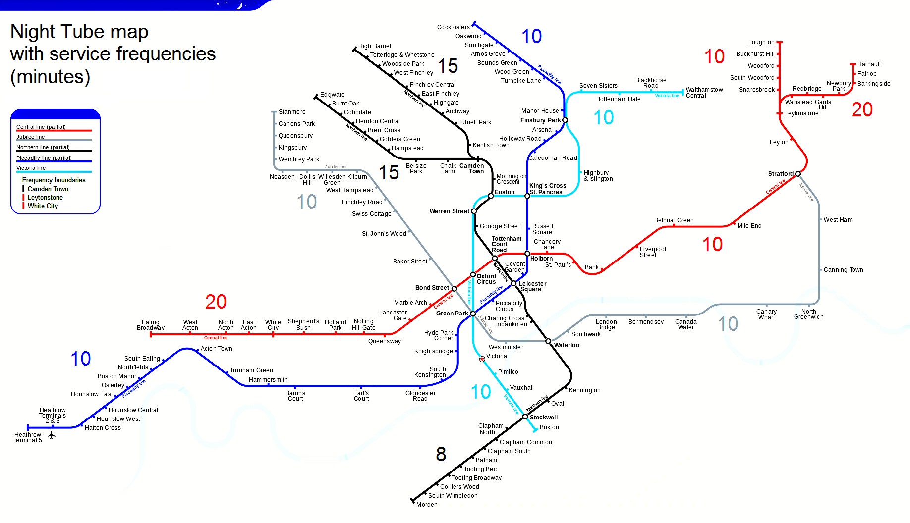 Map of the Night Tube including line/section frequencies